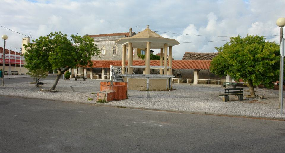 Largo Capitão Argel de Melo